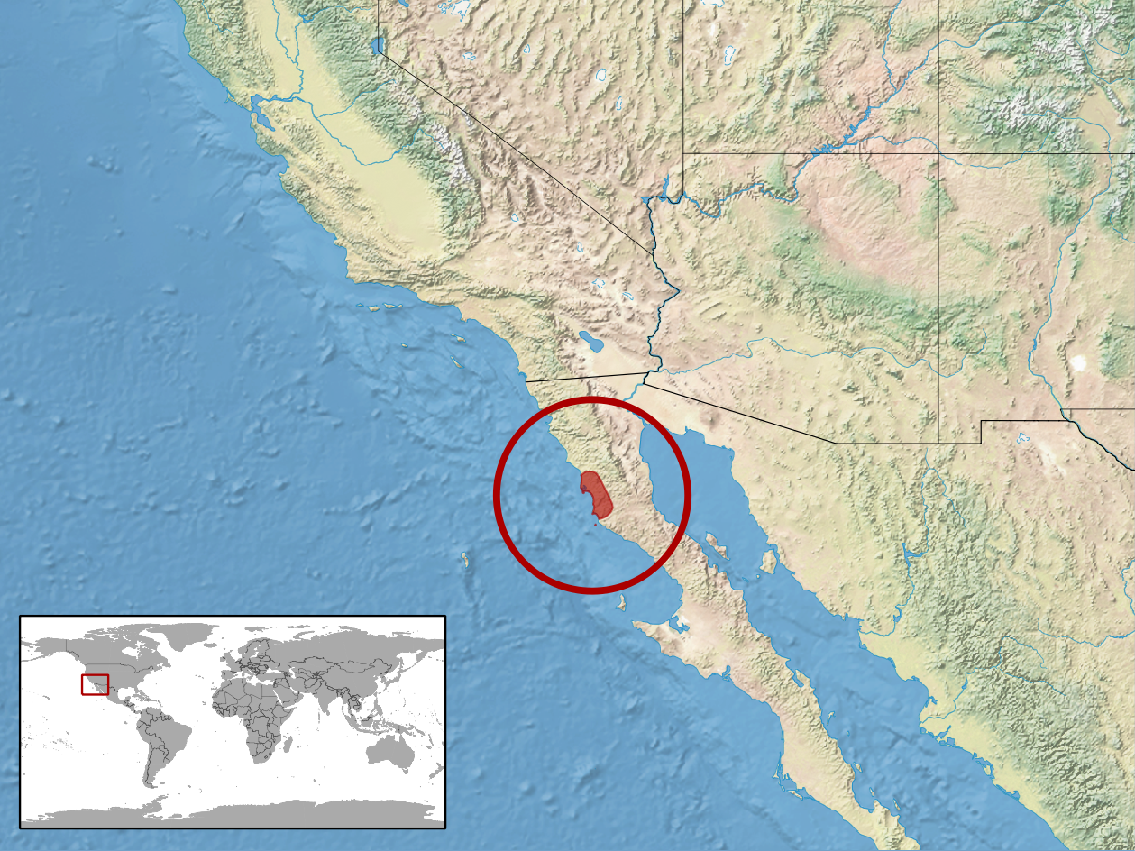 geographic distribution of Anniella geronimensis (Native: Mexico)